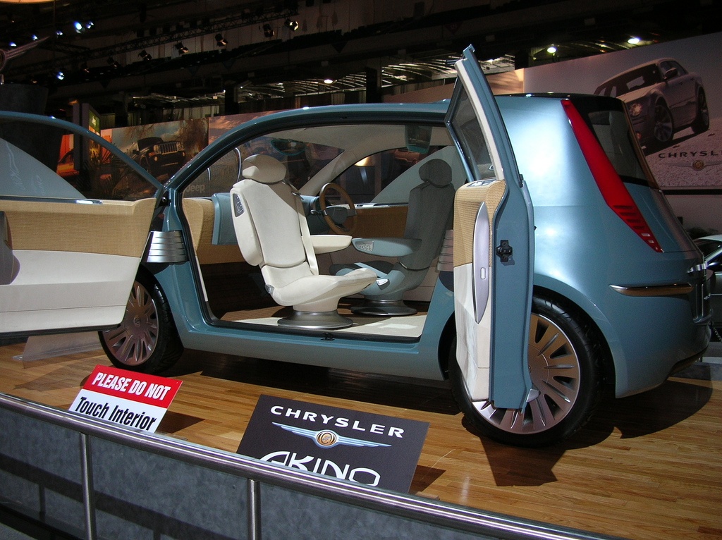 Side view of a Chrysler Akino concept car.